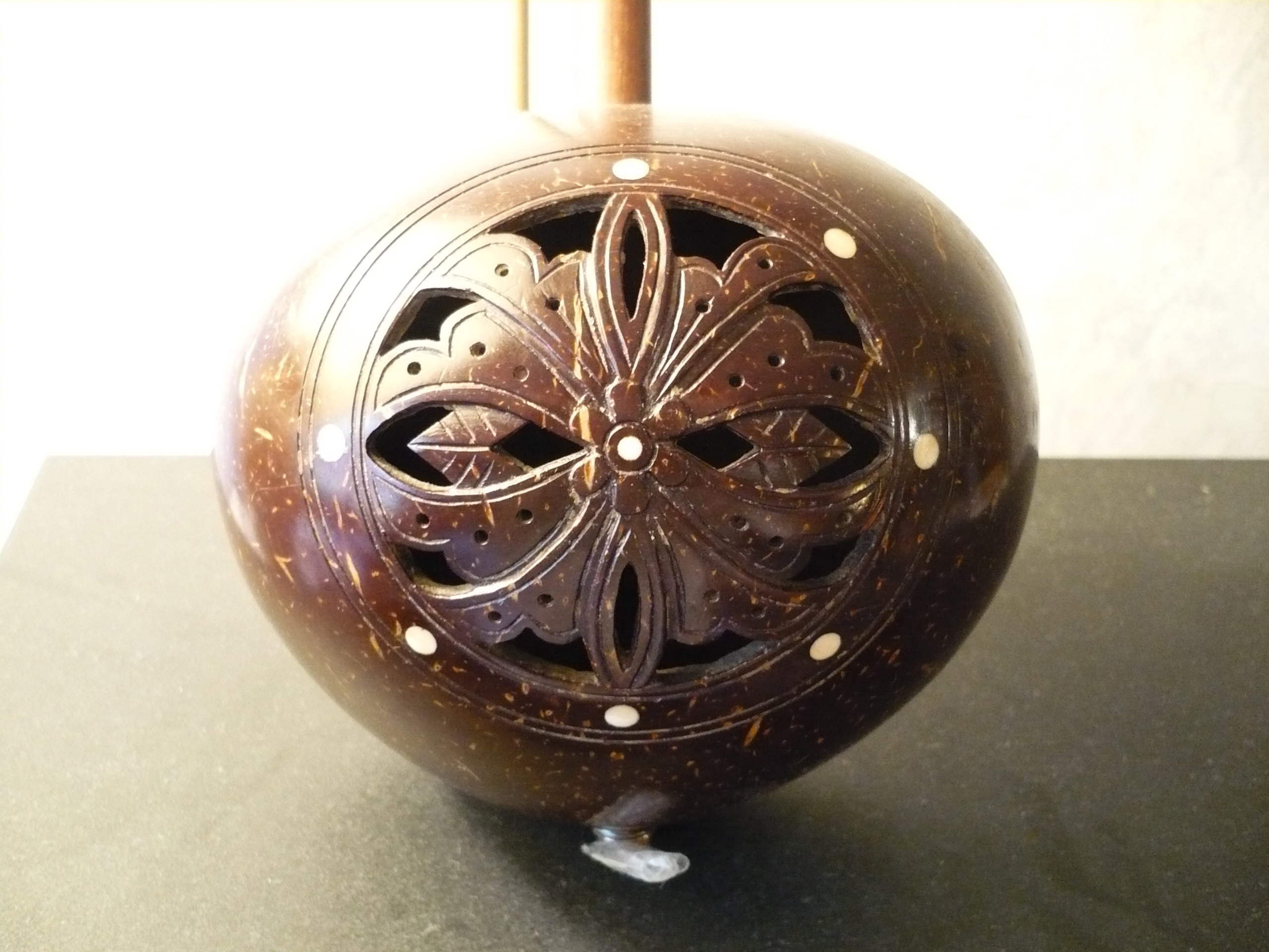 Detail of the carved back of the body of a Chinese yehu (2-stringed fiddle with coconut shell body). The white dots appear to be bone inlay. Photo taken in Kent, Ohio, United States. The yehu was probably made in Guangdong, China.